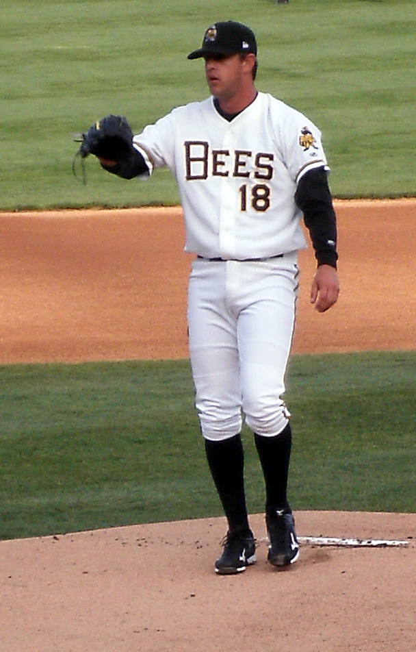 Salt Lake Bees number 18, Daniel Davidson during a game on April 20, 2010 versus the Las Vegas 51s at Spring Mobile Ballpark in Salt Lake City, Utah.